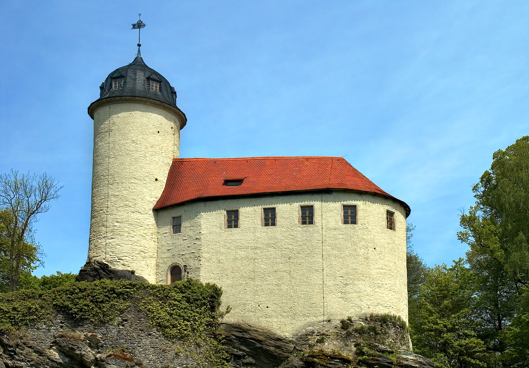 This image shows the castle Rabenstein near Chemnitz (Germany, Saxony).